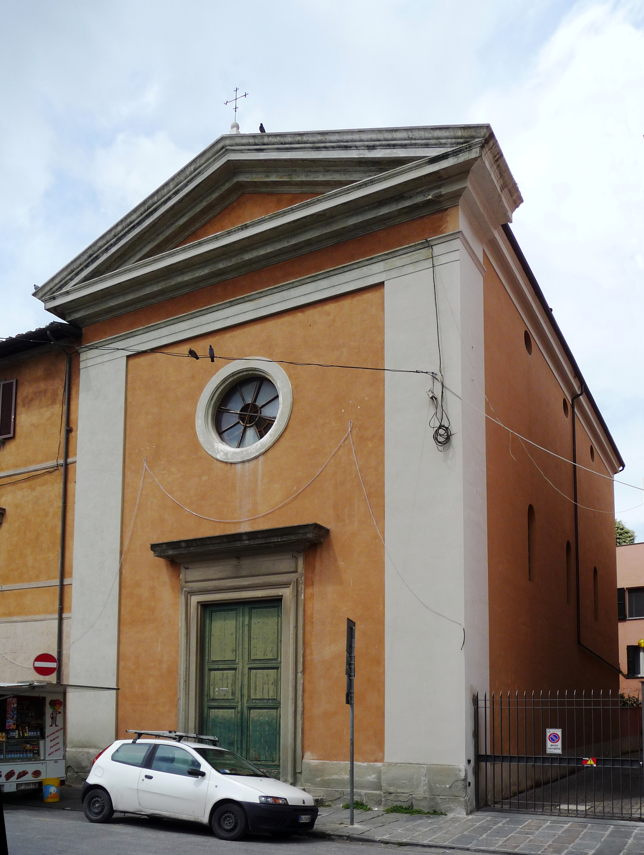 Church "Santi Ranieri e Leonardo" or "San Ranierino", Pisa, Italy (Via Cardinale Maffi)